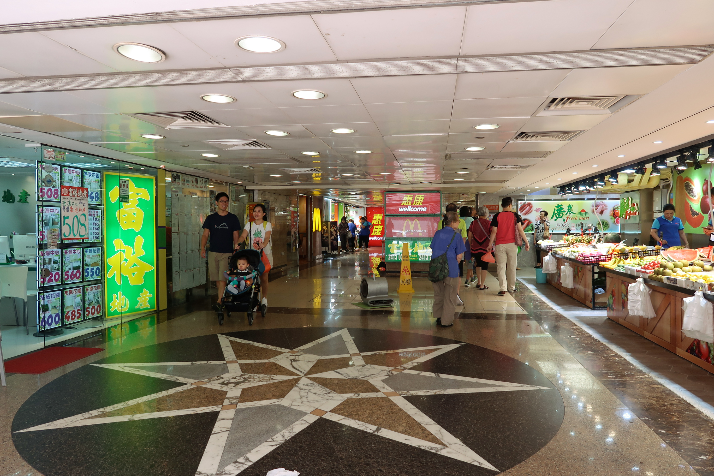 Tsuen Wan Centre Phase 2 GF